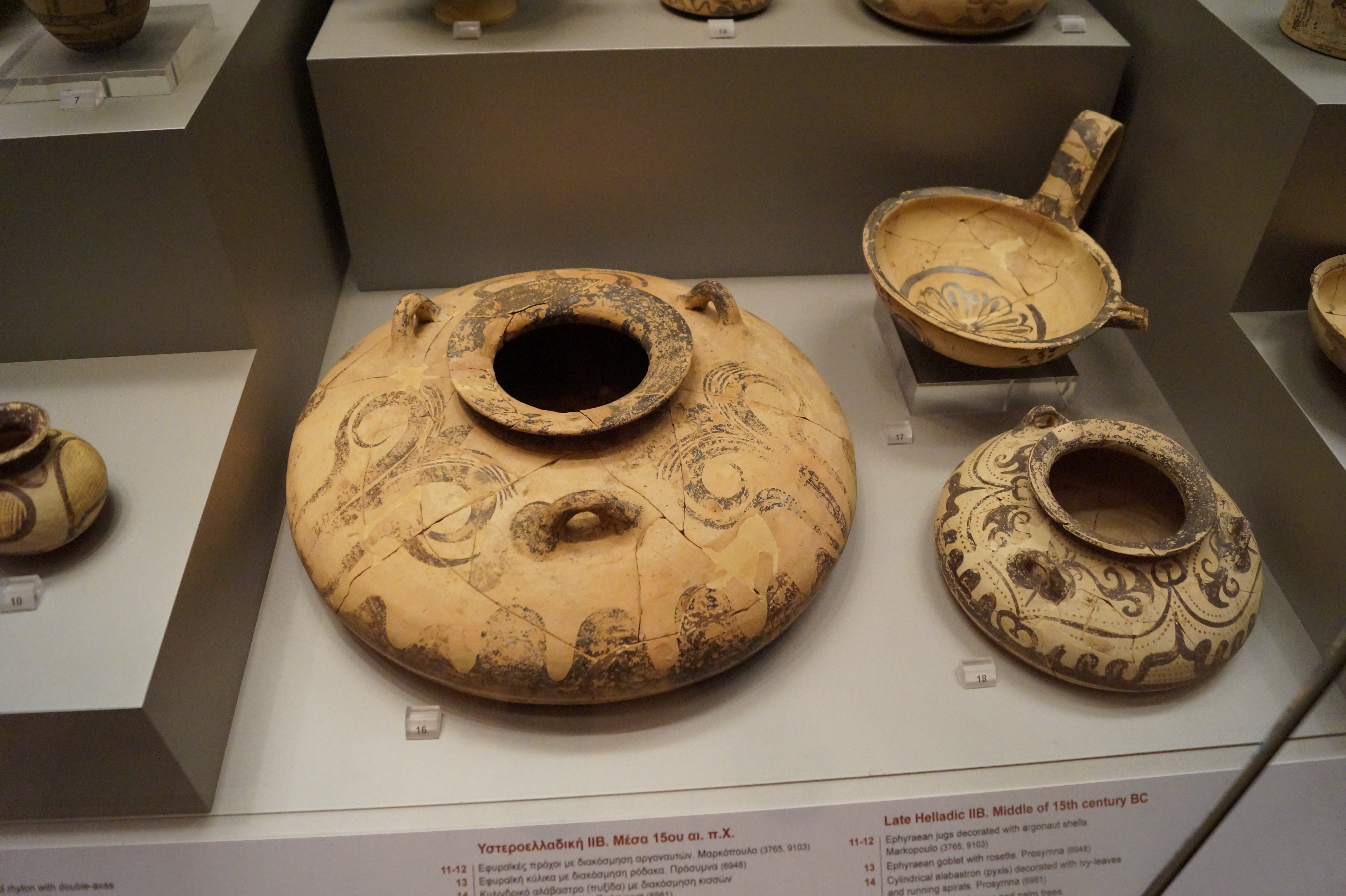 National Archaeological Museum of Athens: Two alabastra (NAMA 6679 + 6771) and a bridge-spouted cup from Prosymna (NAMA 6761) (LH II B, middle of 15th century BC)